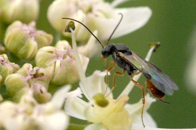 Hygroplitis rugulosus from Commanster, Belgian High Ardennes .